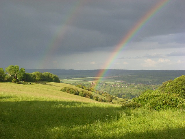 Lardon Chase, a National Trust site above the village of Streatley, in the English county of Berkshire. For more information see the Wikipedia article Lardon Chase, the Holies and Lough Down.